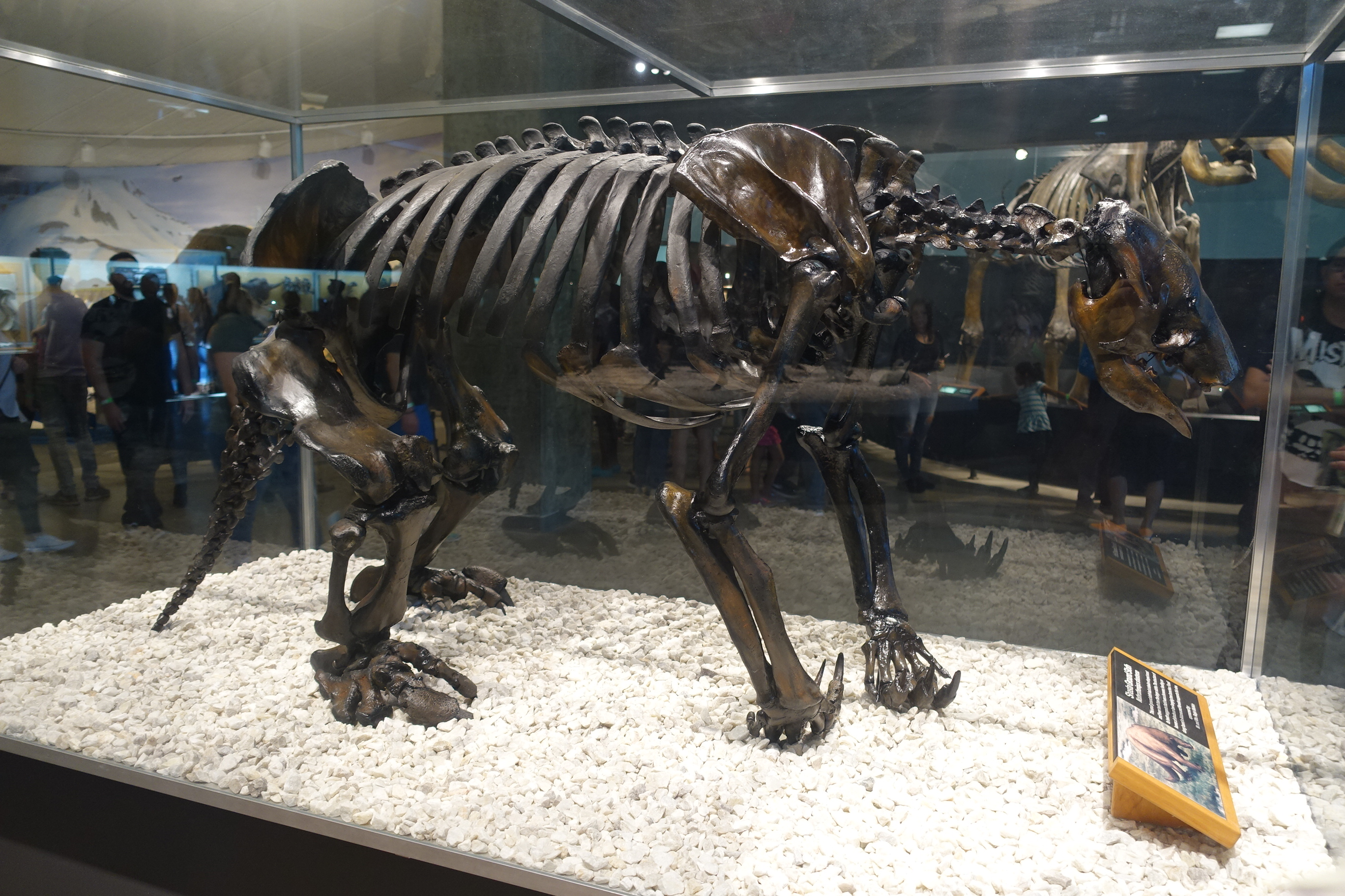 La Brea Tar Pits Museum - Shasta Ground Sloth